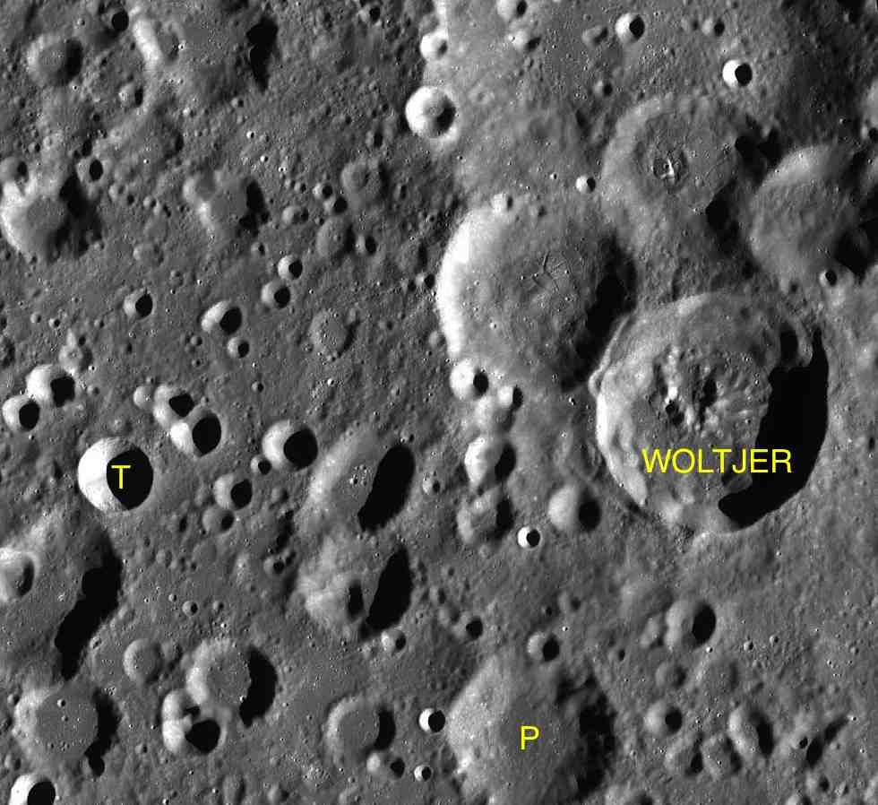 Part of the chart LAC-33 used for the presentation